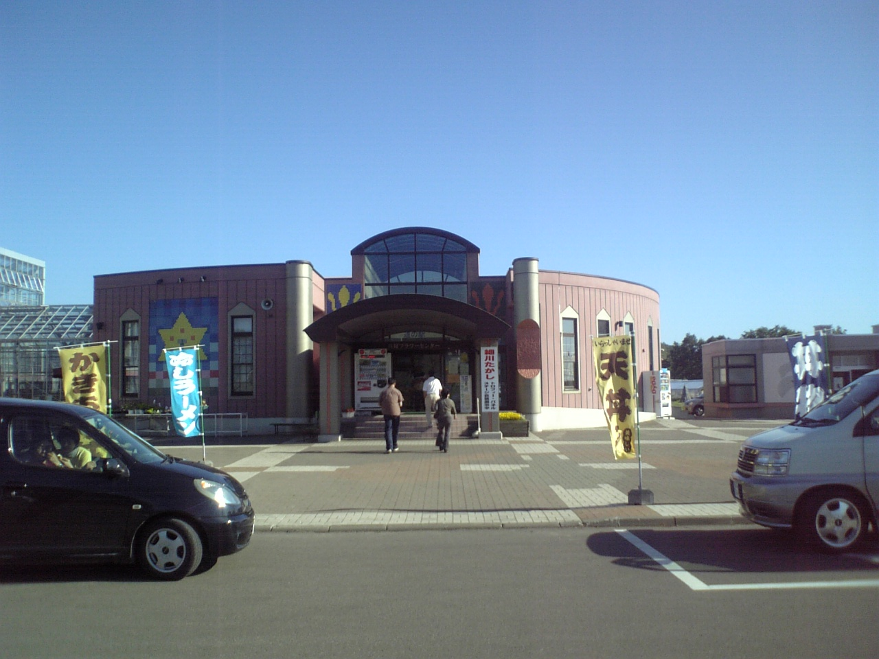 Michinoeki(Roadside Station) Makkari Flower Center (Makkari, Hokkaido)